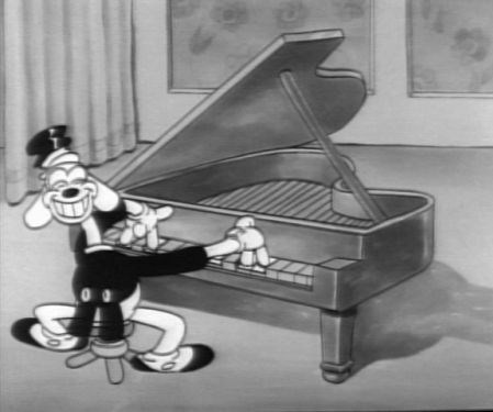 Screenshot from Goopy Geer, a 1932 Warner Bros. cartoon. For details, check the link below: Golden Age Cartoons